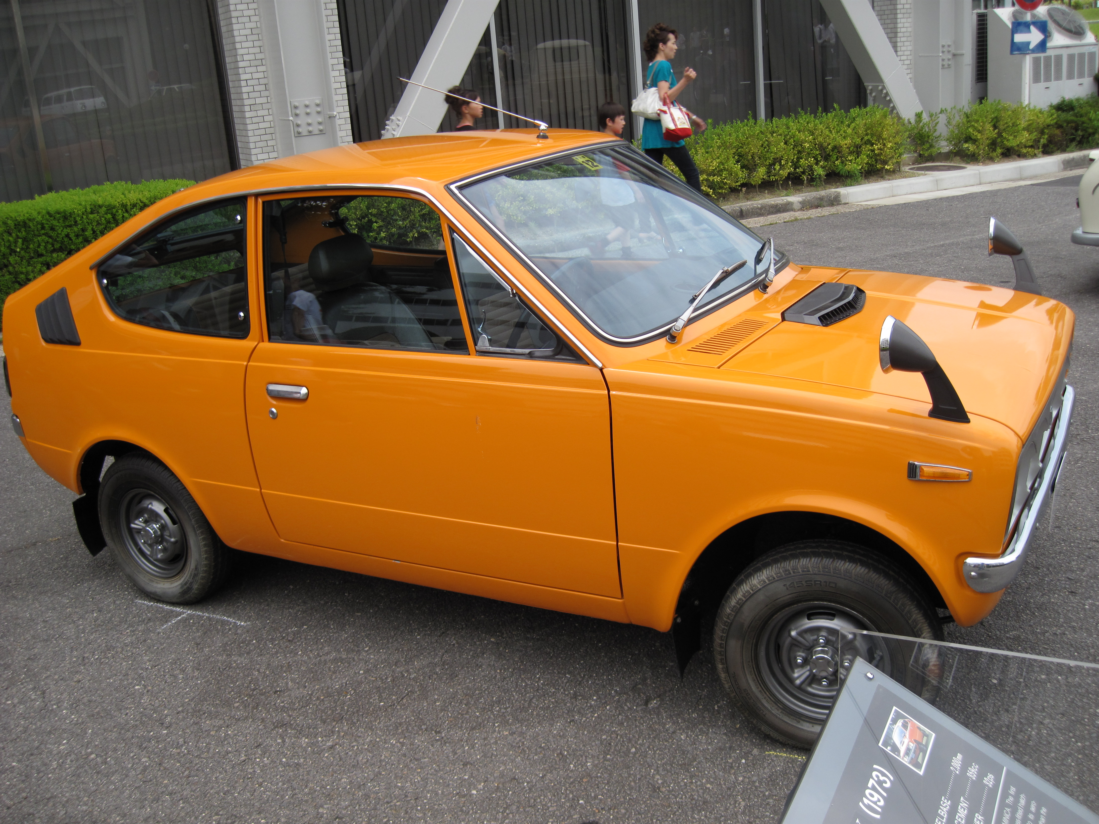 This is a picture of a 1973 Minica Skipper IV that I took outside the museum for the Mitsubishi "Passenger Car Engineering Center" in Okazaki-city, Aichi, Japan